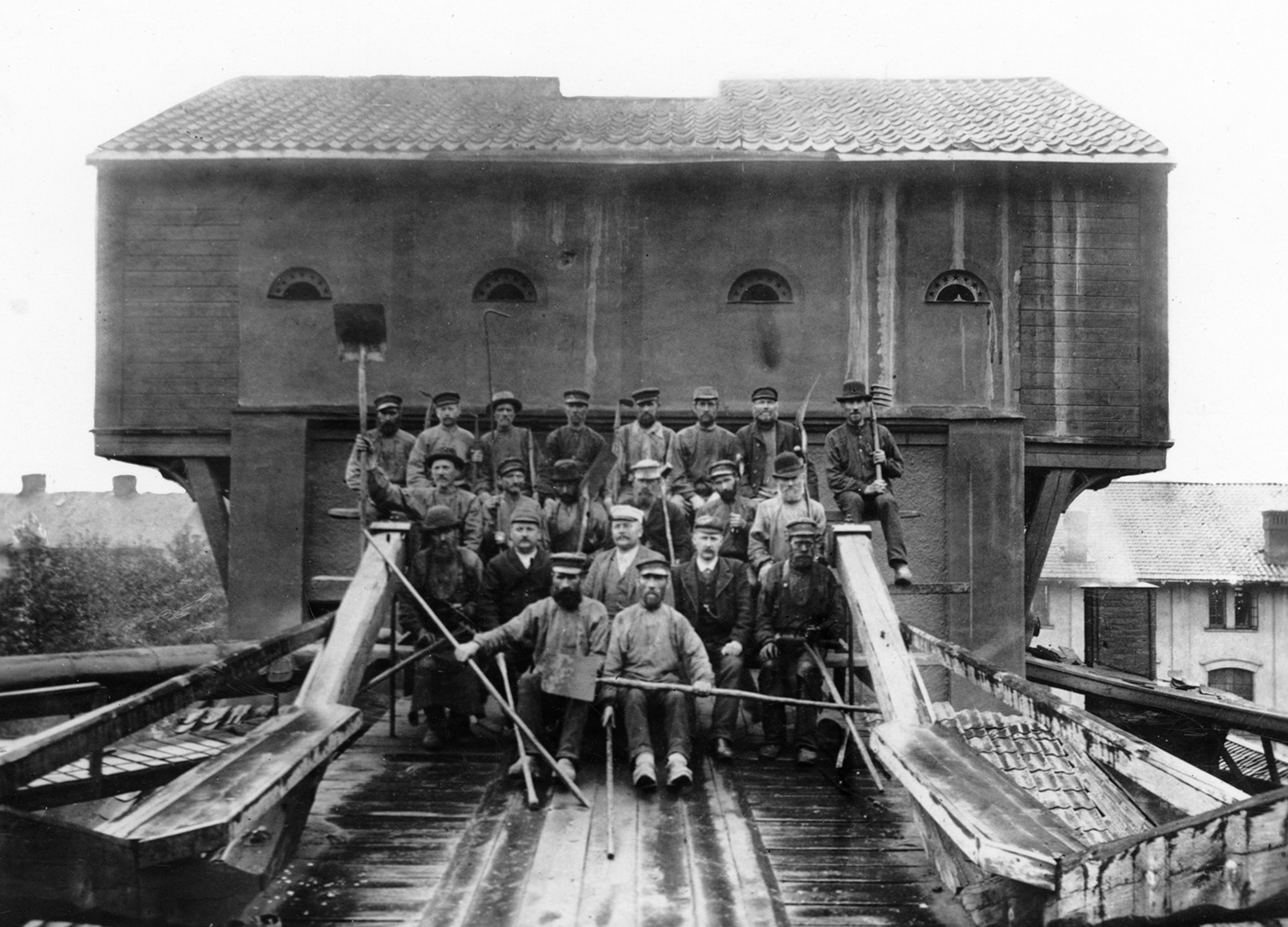 Workers in Ankarsrums blast furnace at around 1880. Ankarsrum Sweden.